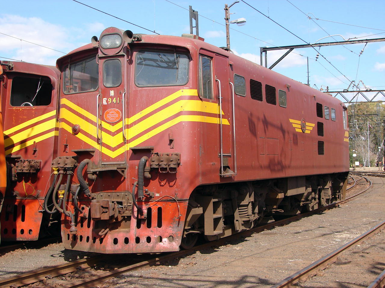 SAR Class 5E1 Series 5 no. E941 Location: Ladysmith, KwaZulu Natal